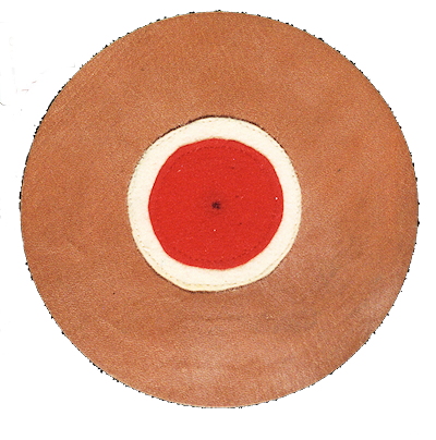 12th Observation Squadron - 37th Division Ohio NG Emblem